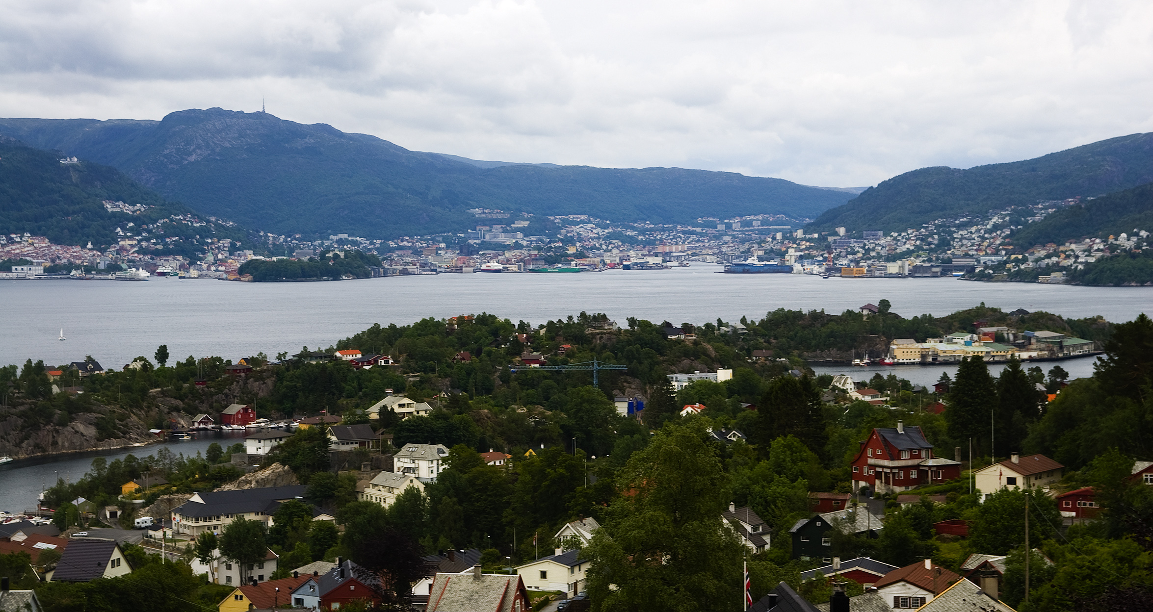 Bergen, Norway seen from Askøy (foreground).